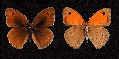 Contributions to Zoology - Maniola telmessia (female) Cut-out from original (Maniola species.jpg) shown below